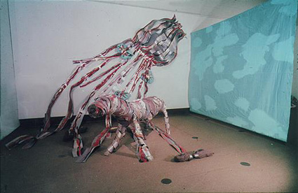 Miriam Neiger´s work at Israel Museum